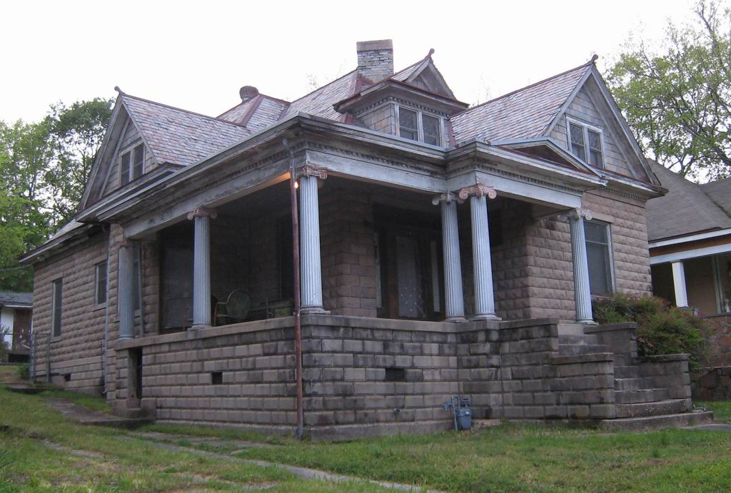 The T.R. McGuire House in the Capitol View Historic District at 114 S. Rice is a spectacular treatment of the Colonial Revival style of architecture. This property is on the national register of Historic Places